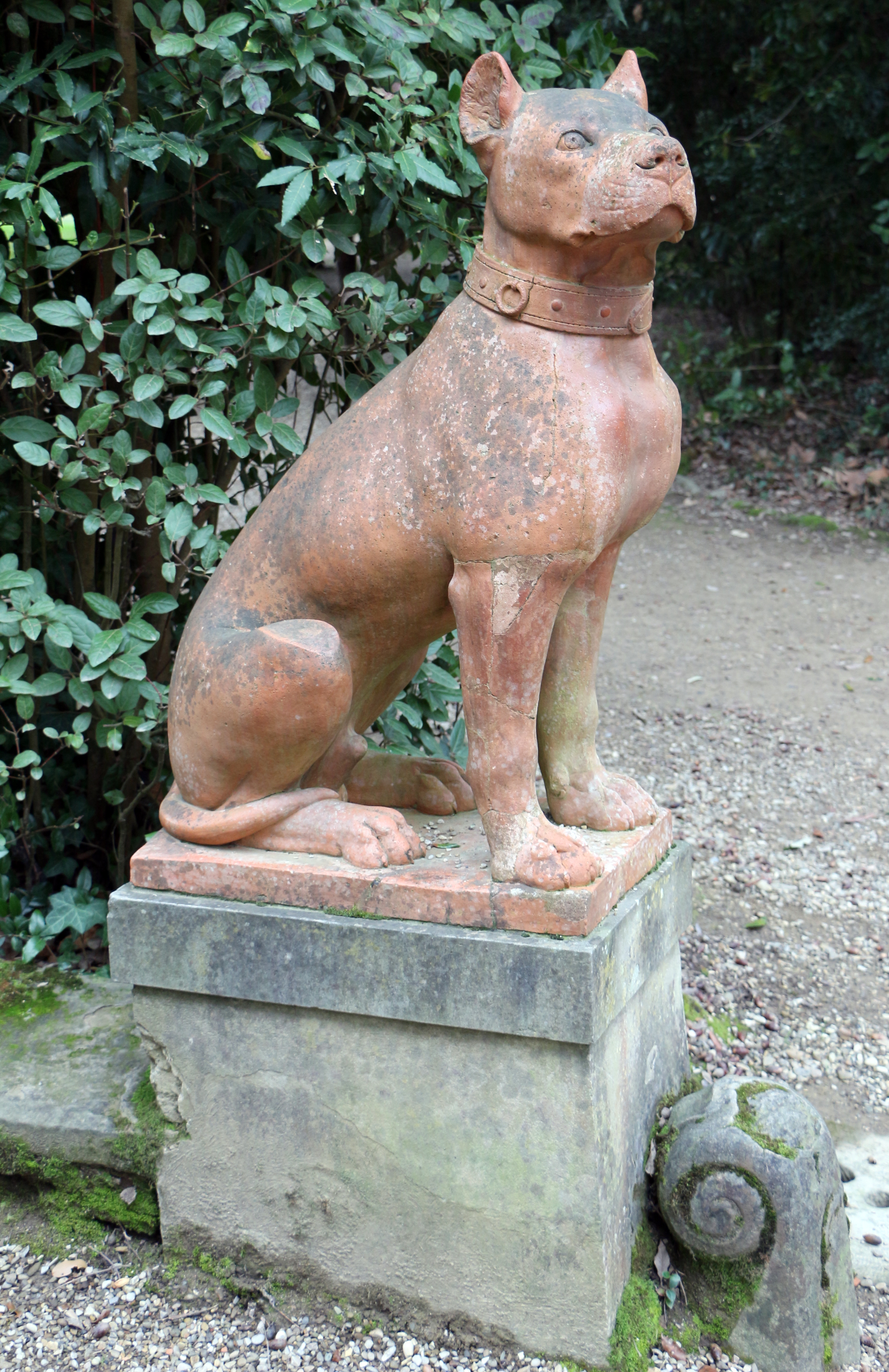 Statues in the Boboli Gardens